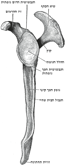 Left scapula. Lateral view.